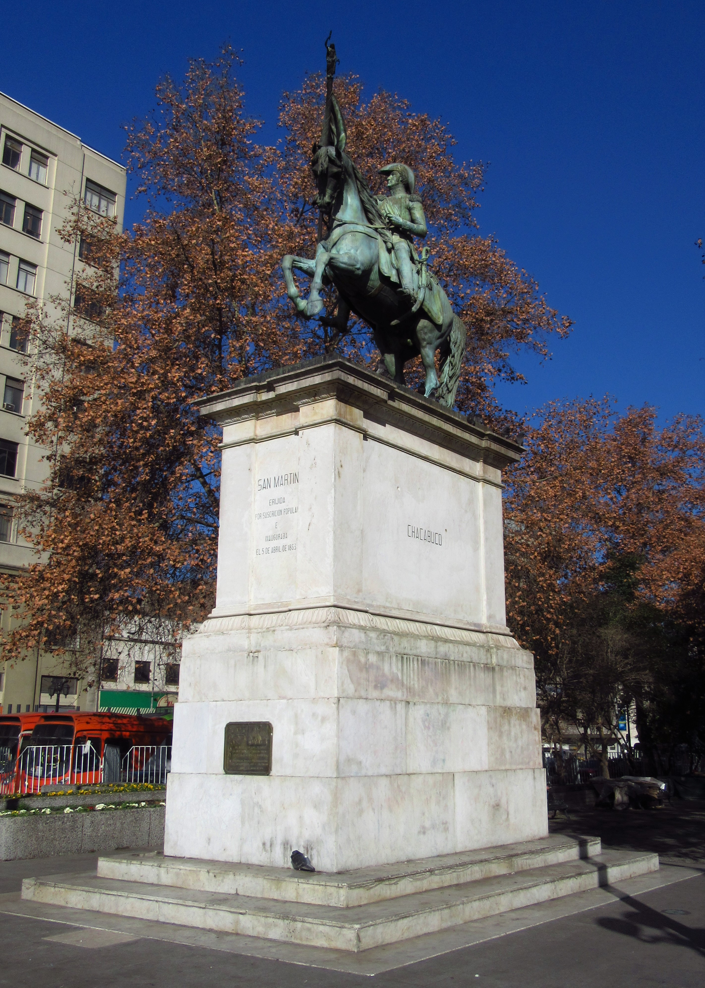 2017 in Santiago de Chile